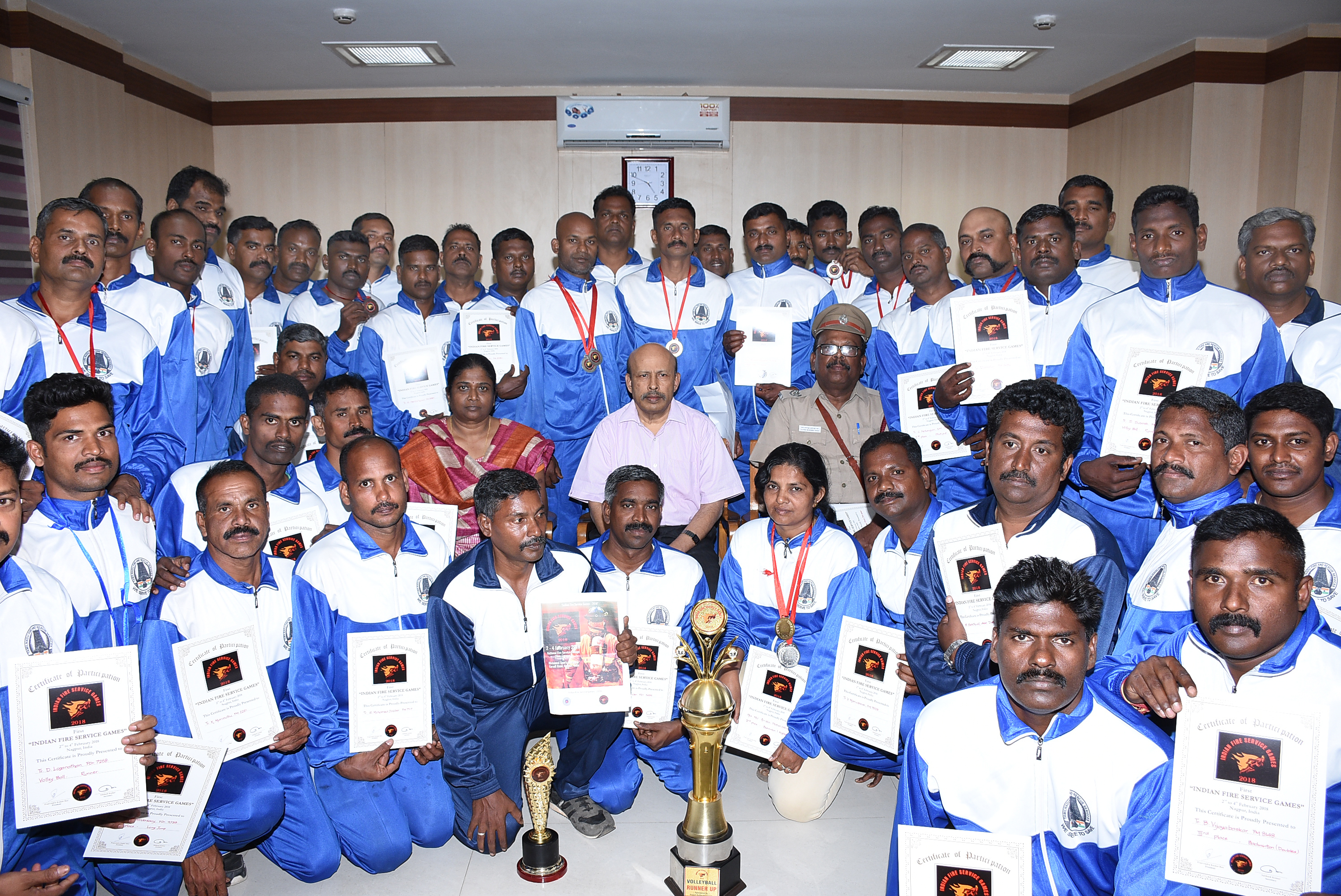 National Fire Games-2018